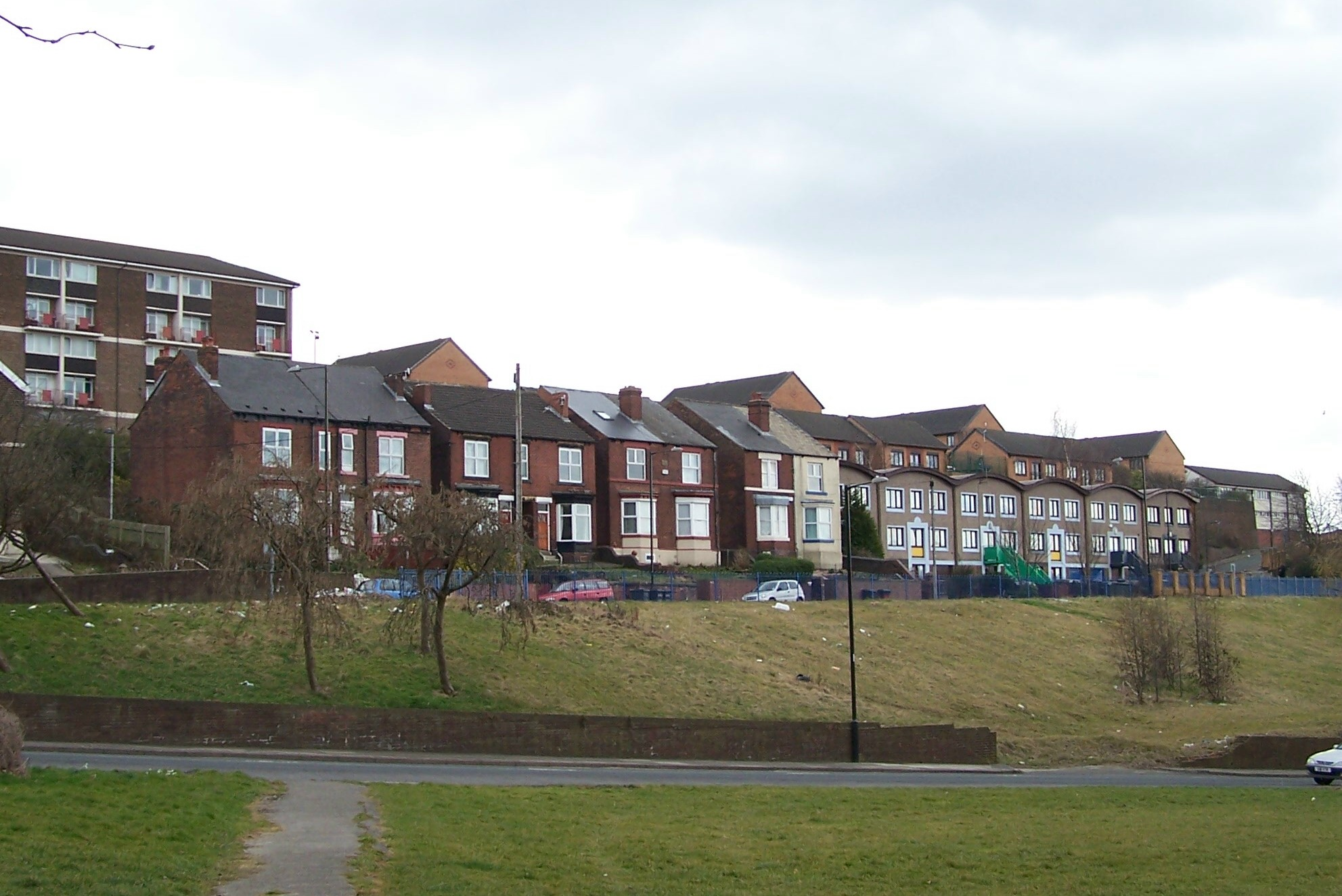 Pye Bank Road, Woodside, Sheffield. Viewed from Woodside Lane, off Pitsmoor Road ... follow these links for a closer look ... 1756449 1756469 ... In the 1970s there were apartment blocks, where the grass banking is now ... follow this link for more information and a further link to view a picture of this ... 1738839 ... Picture Sheffield has a picture showing this view complete with apartment blocks ... use this link ...